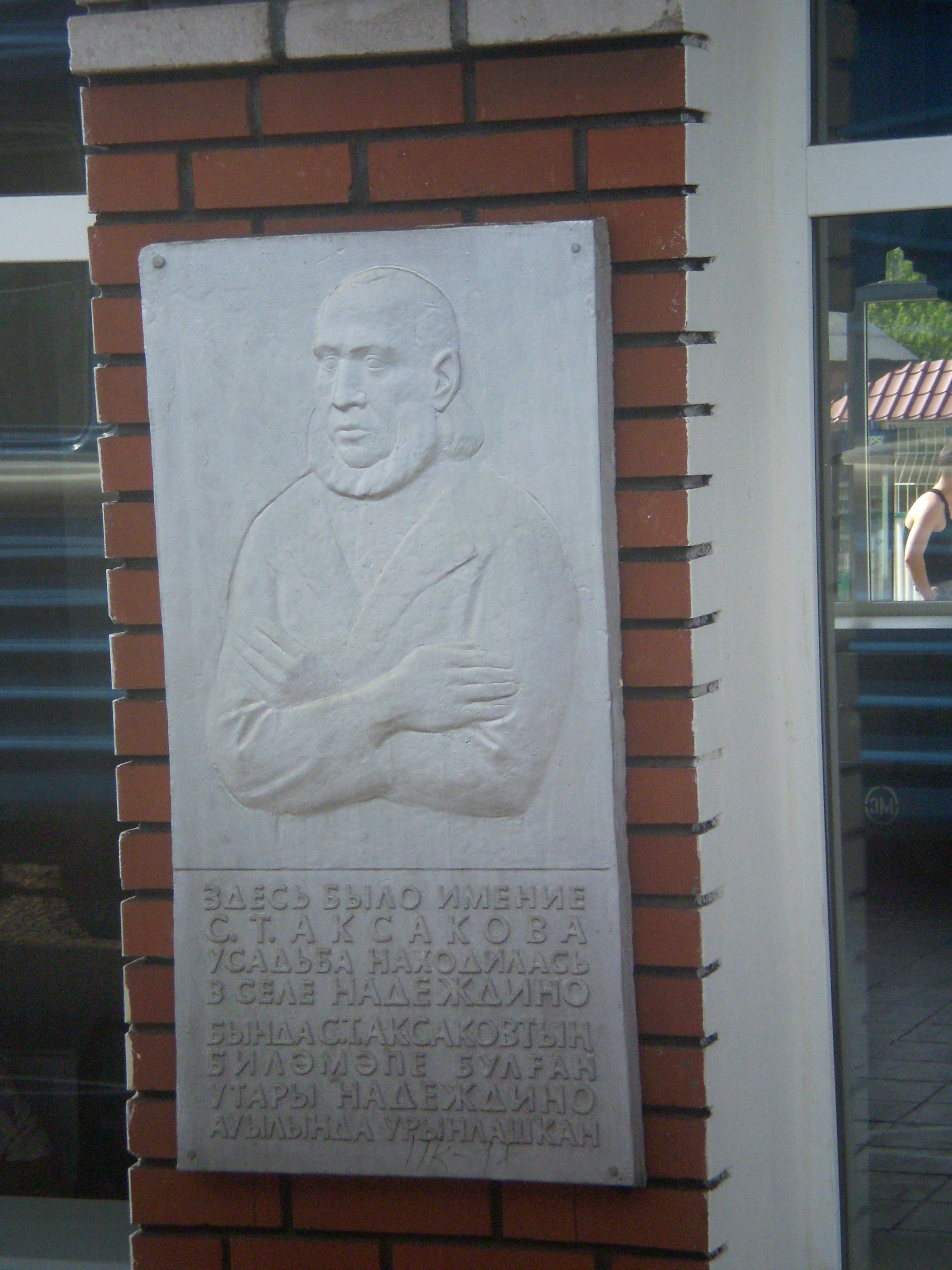 Memorial desk. S.T.Aksakov's estate location. Aksakovo railway station wall, Kujbishevskaya railway. Russia